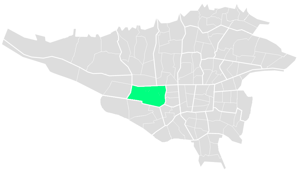 Region 9 of Tehran